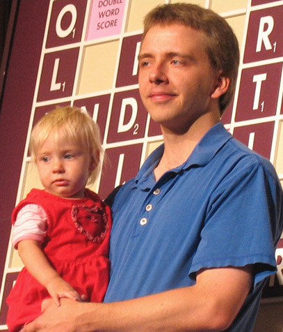 Dave Wiegand, Scrabble expert